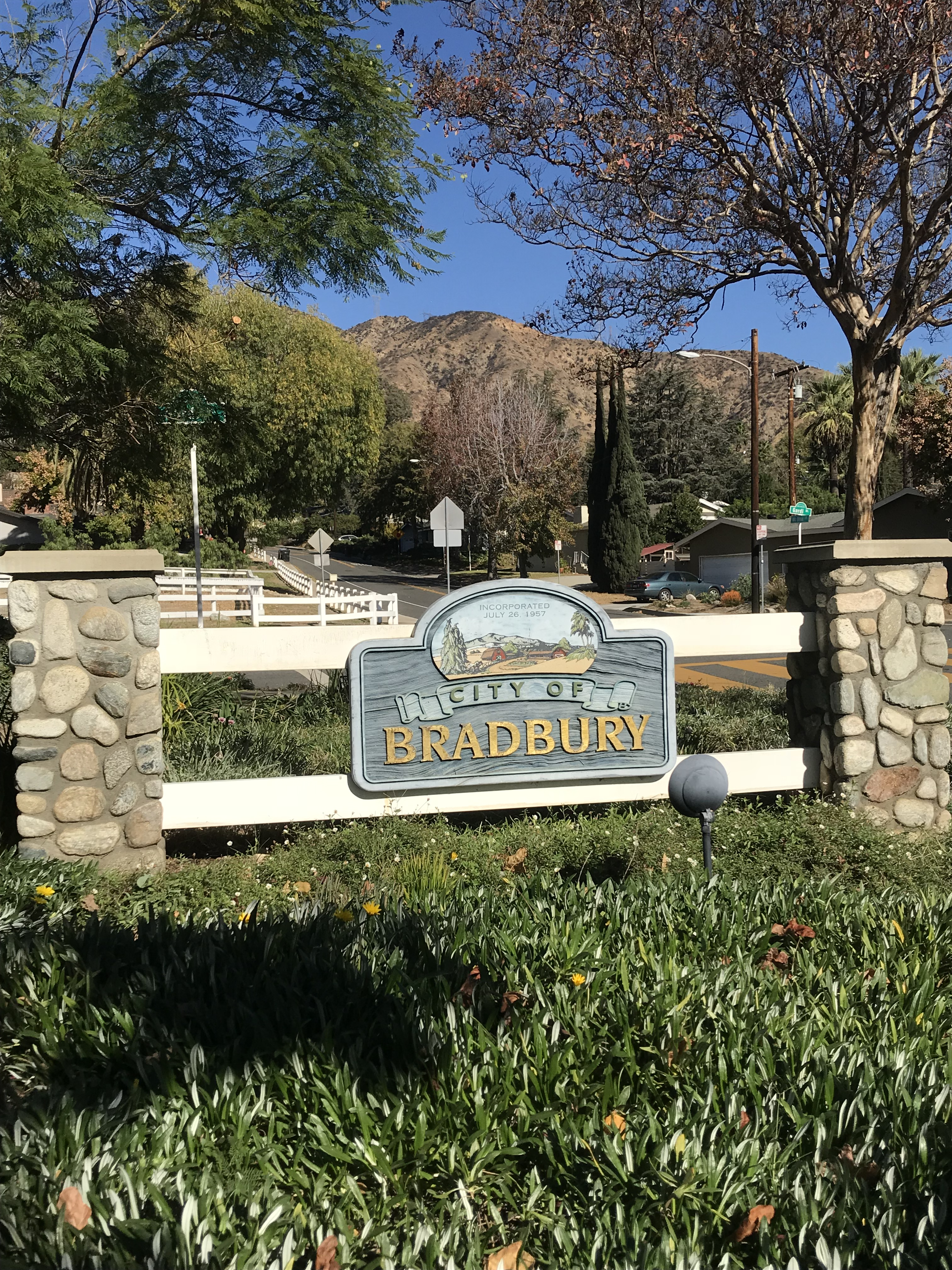 An entrance sign visible to visitors of Bradbury, California.